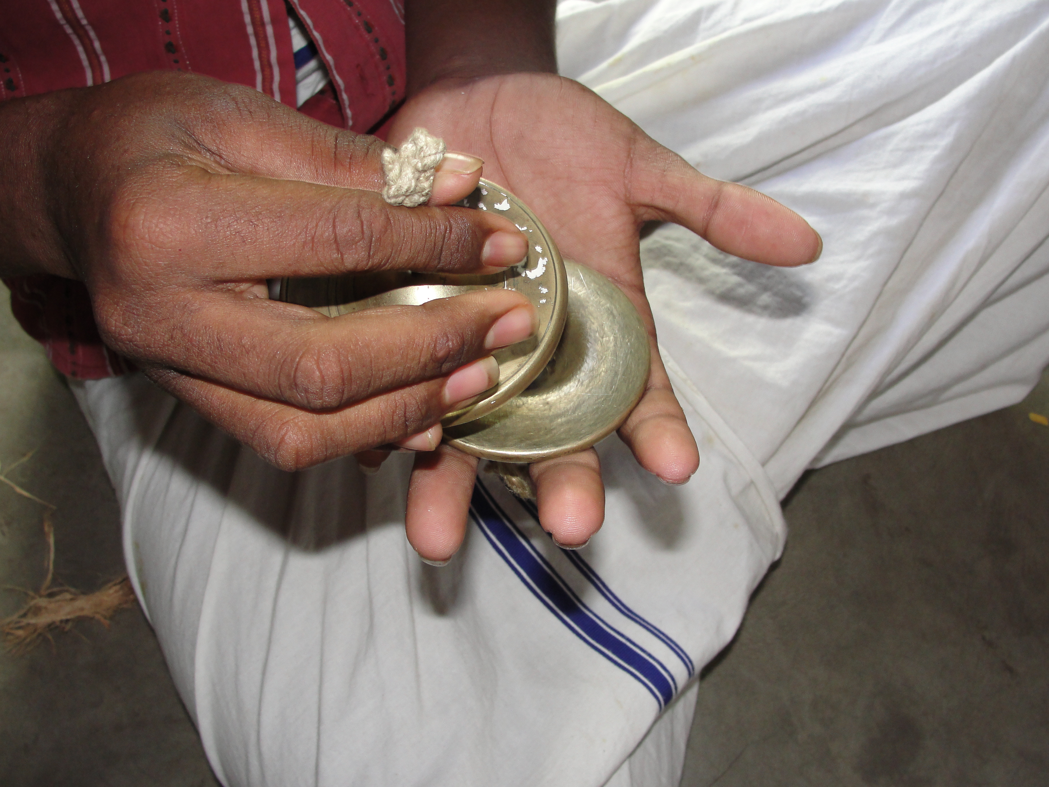 A depiction of Thalam play. Location: Government Music school, Salem , Tamil Nadu, India.